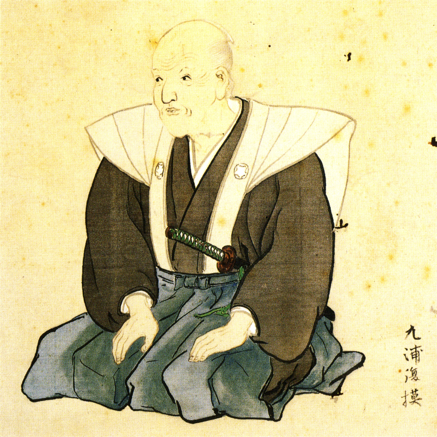 Portrait of Zusho Hirosato